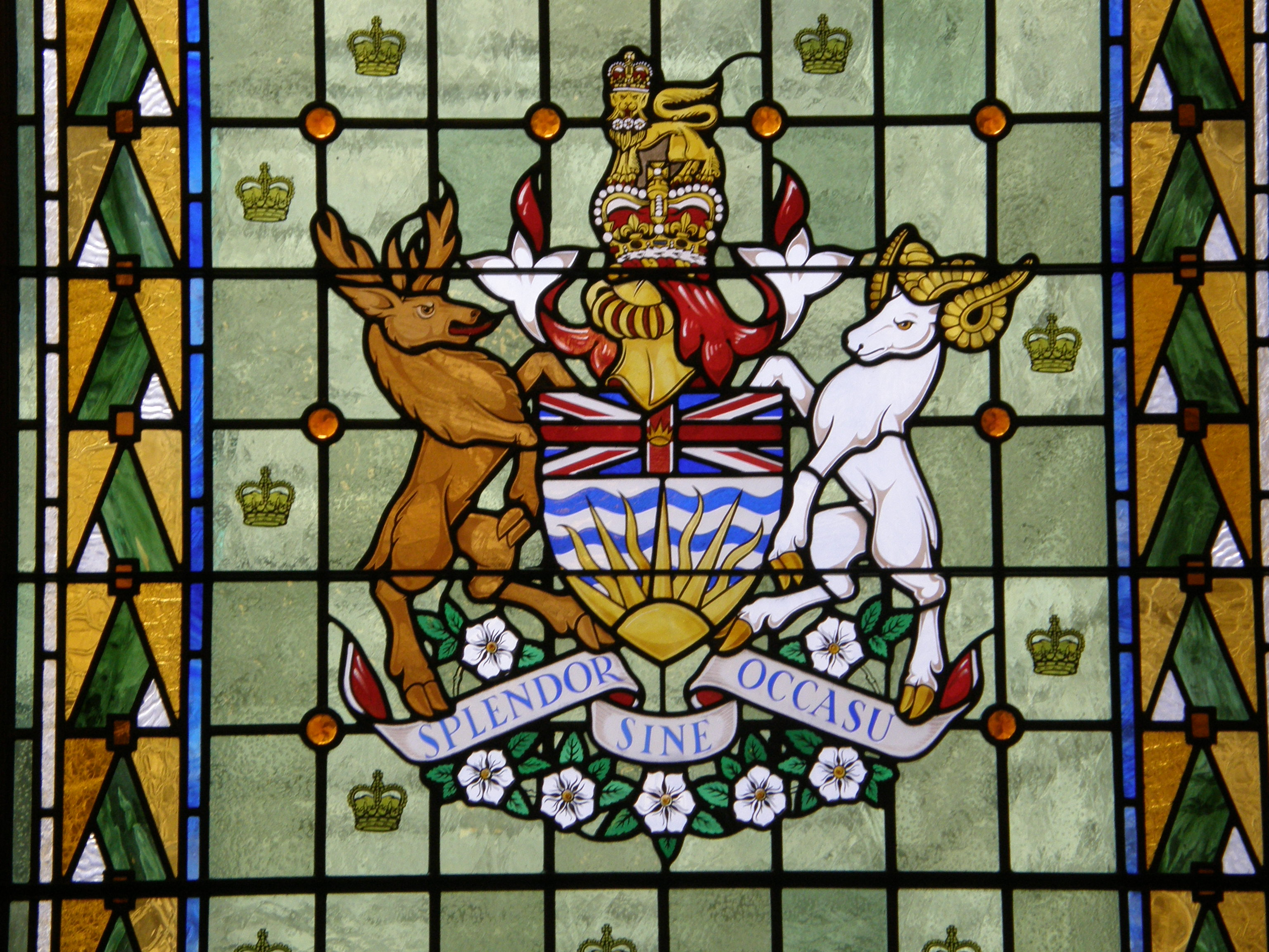 The Coat of Arms of British Columbia, rendered in stained glass, in the provincial parliament building in Victoria, BC